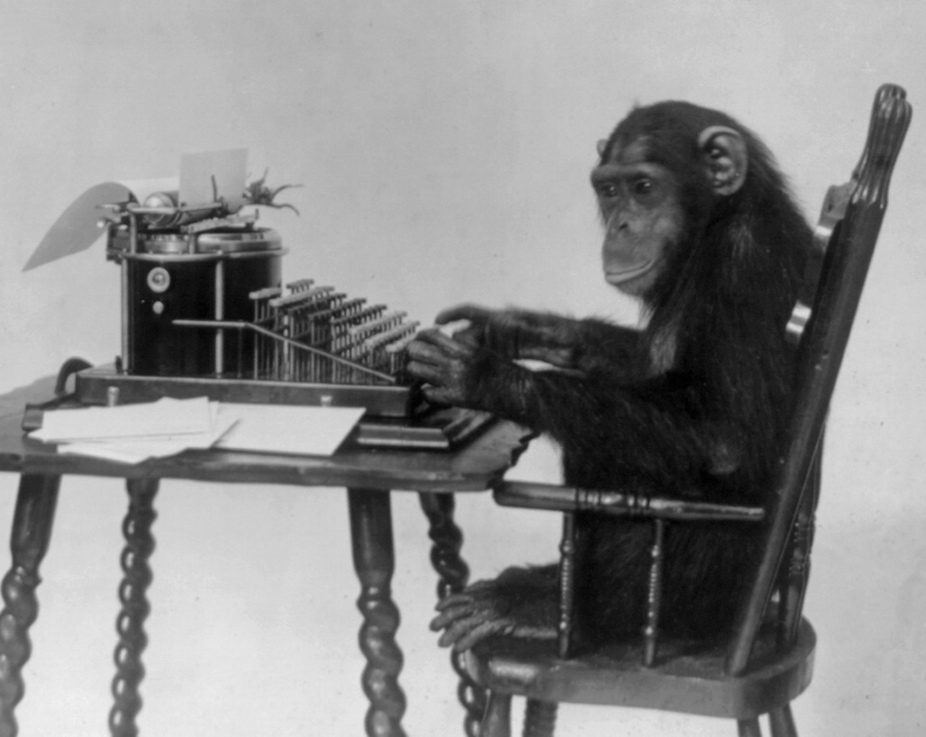 A chimpanzee seated at a typewriter